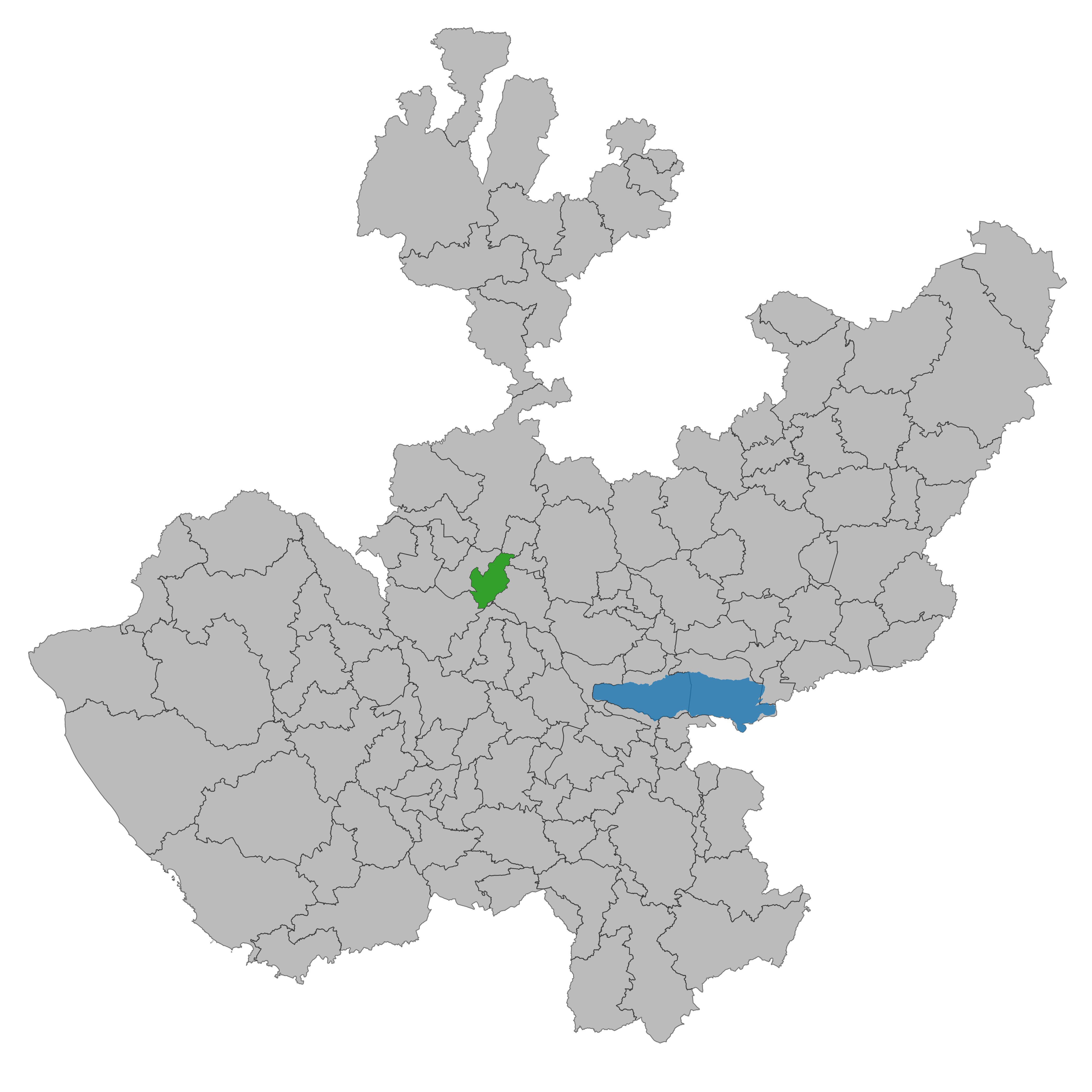 Municipality of Jalisco. Prepared with the software QGIS version 2.8.2 Wien & with information of SCINCE 2010 version 05/2013